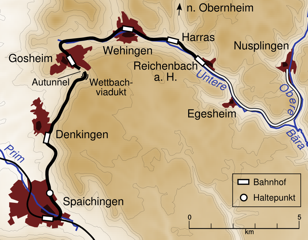 map of Heubergbahn railroad